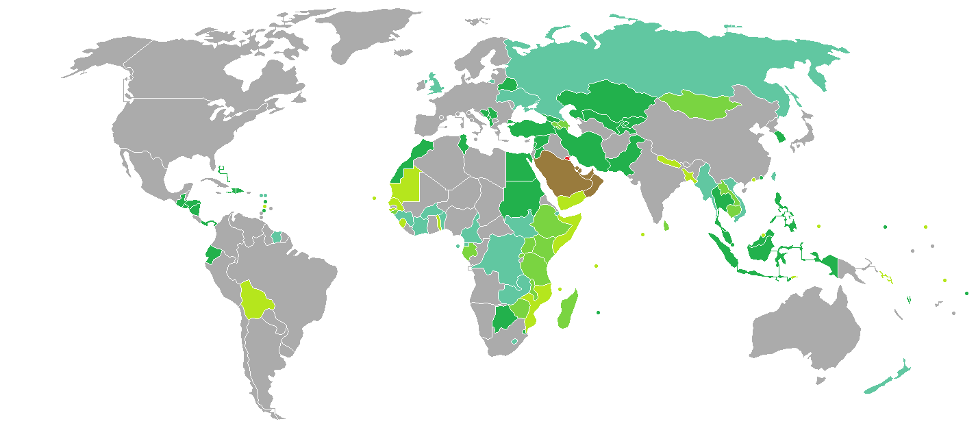 Visa requirements for Kuwaiti citizens Kuwait Freedom of movement Visa free access Visa on arrival eVisa Visa available both on arrival or online Visa required